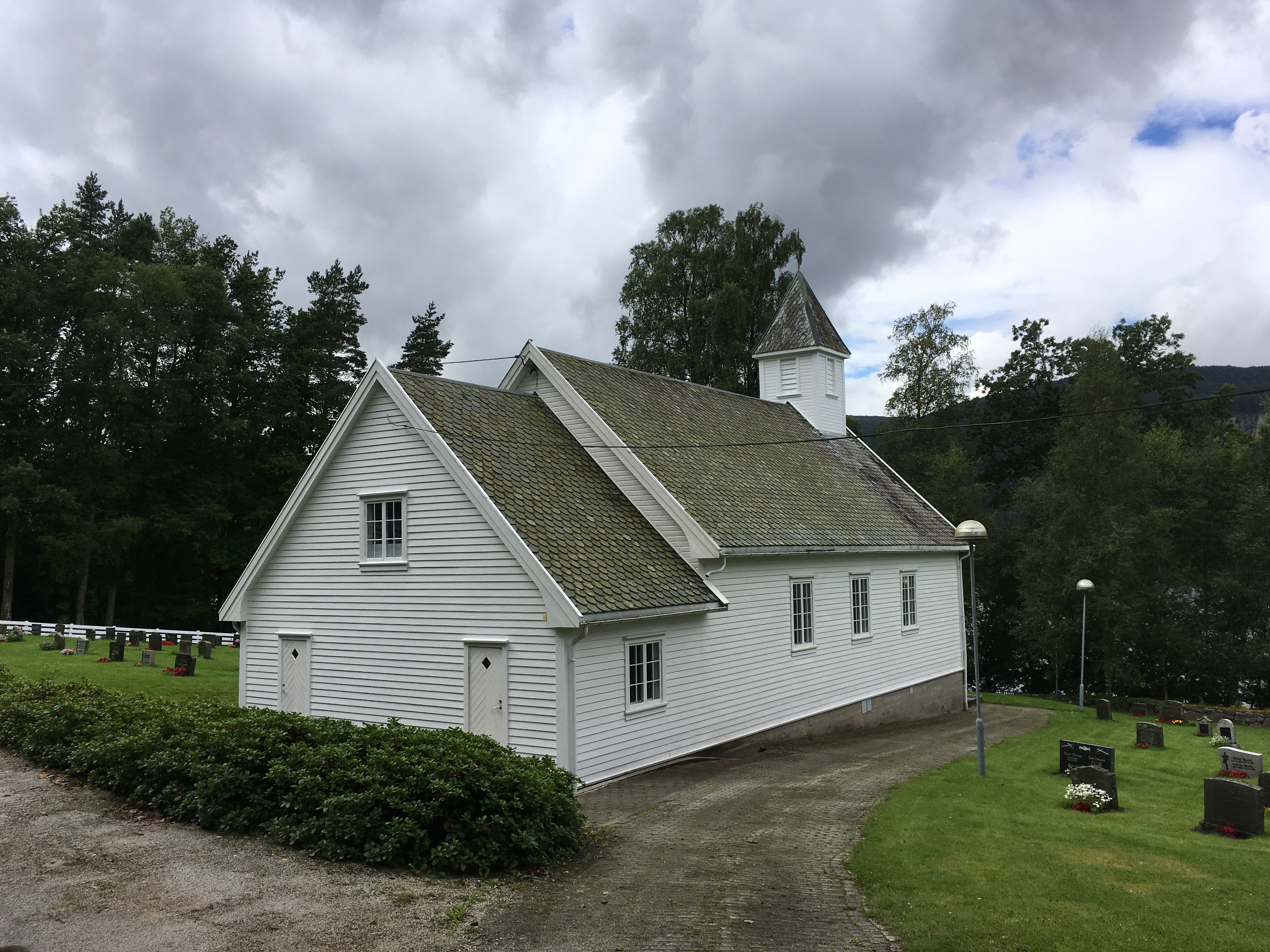 Haughom chapel, Sirdal municipality, Norway. Erected 1930. Architect: John A. Søyland